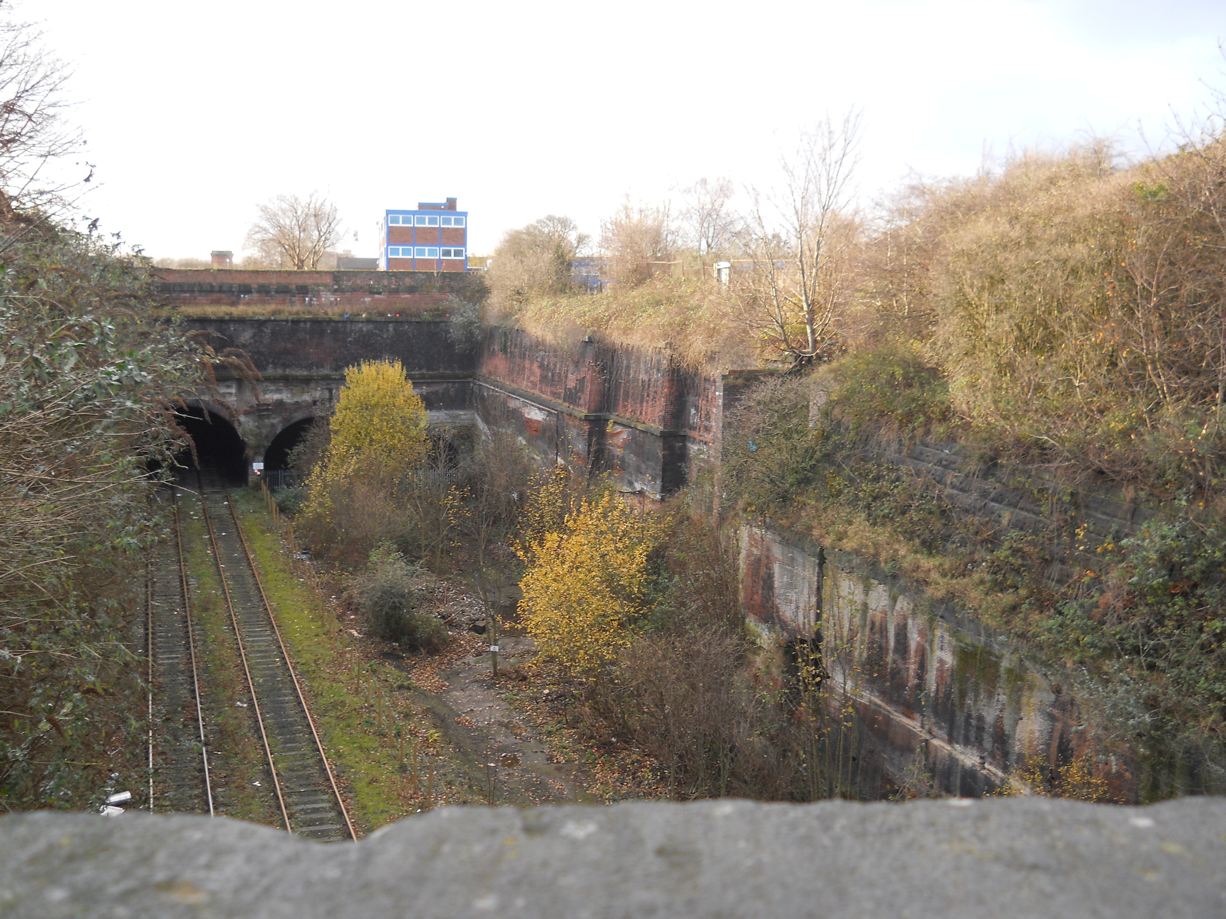 Edge Hill cutting, Liverpool with eastern portals of three tunnels - New Crown Street (left), Wapping (middle), and Old Crown Street right. On right hand side is the site of the winding engines required to pull trains up to Crown St station - the original terminus of the Liverpool and Manchester Railway. View of portals at Sirdar Close westward from bridge at Chatsworth Drive.